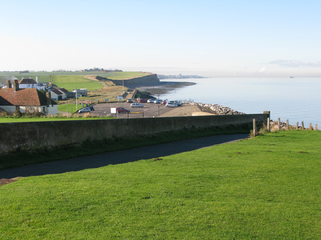 View from the churchyard, Reculver, of the Thanet Coastal Path towards Herne Bay